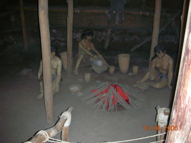 Statues of pottery, Xinle neolithic site, Shenyang, China 瀋陽新樂遺址先民生活場景：陶器制作